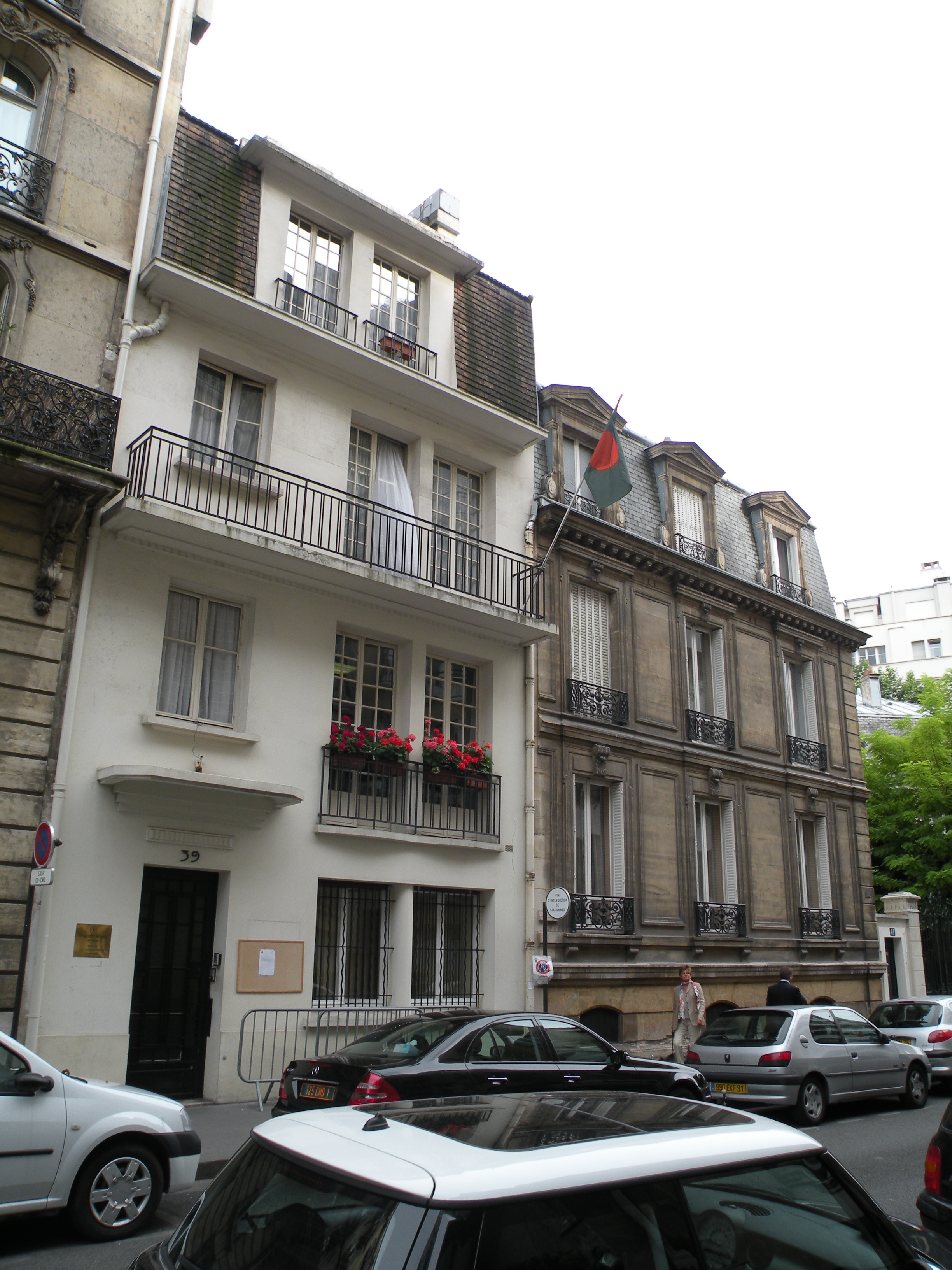 Former Bangladeshi embassy in France, Paris.